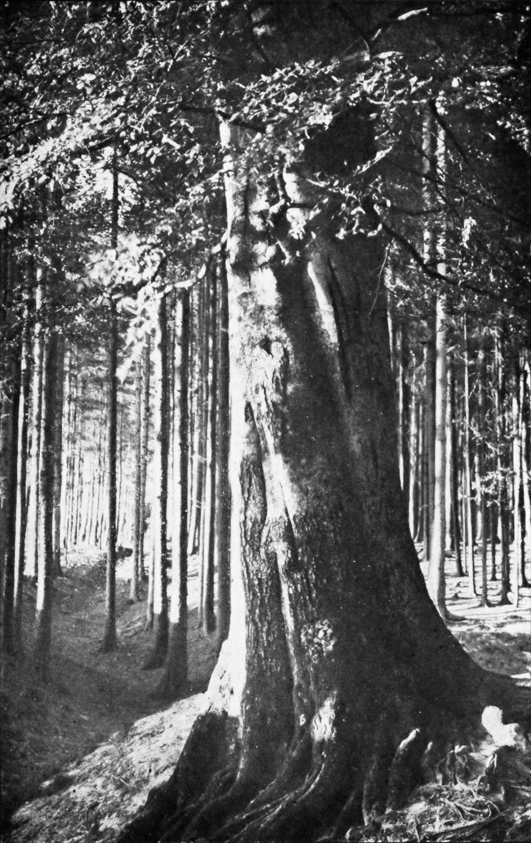 Horák's beech, famous tree, Lhoty u Potštejna, Malá Lhota, Czech Republic